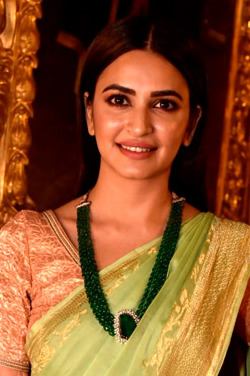 Kriti Kharbanda graces Teach For Change event, Mar 30, 2018